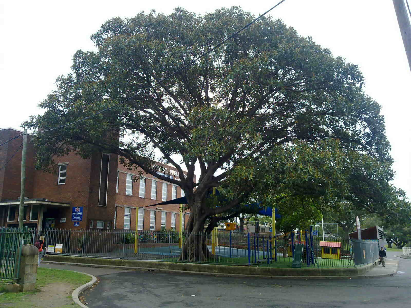 General view of "Fort Street Public School" building, from Upper Fort Street (Observatory Hill) end, looking North. Located at Millers Point, Sydney, NSW, Australia. The front playground (under a huge tree) and main entrance can be seen.